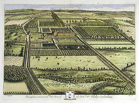 Print by Johannes KIp (1650–1721). In the public domain by virtue of age )